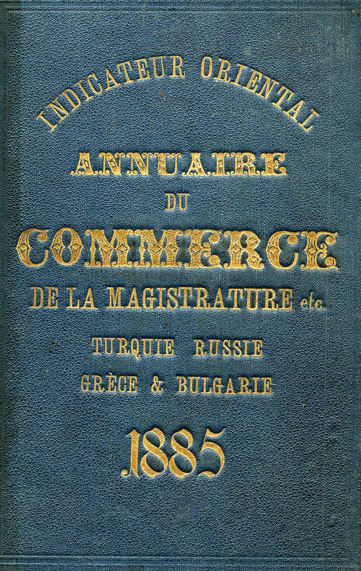 Ottoman Bank Archives and Research Centre: "Indicateur oriental. Annuaire du commerce, de la magistrature etc."